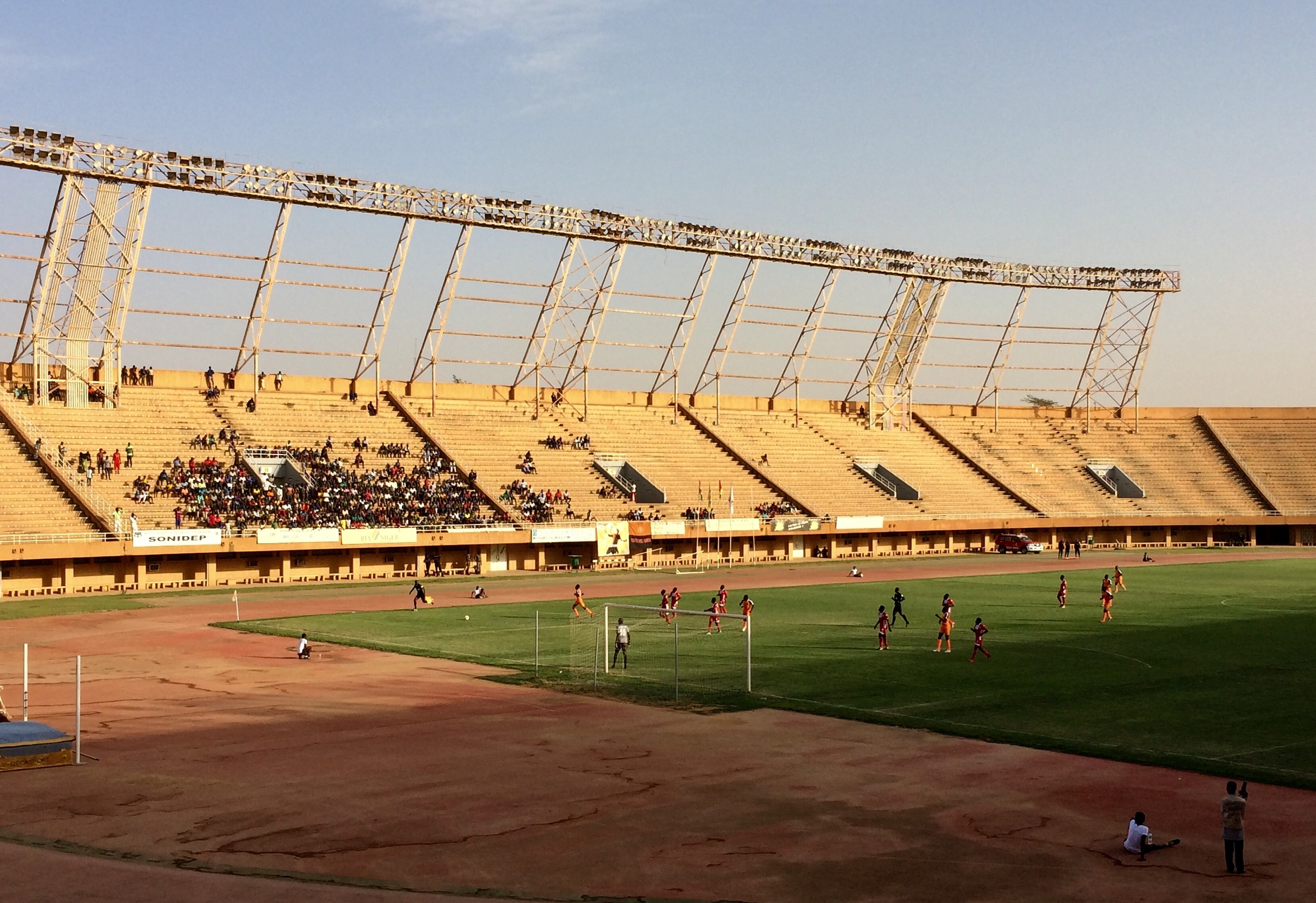 A soccer match in the General Seyni Kountché Stadium in Niamey, Niger